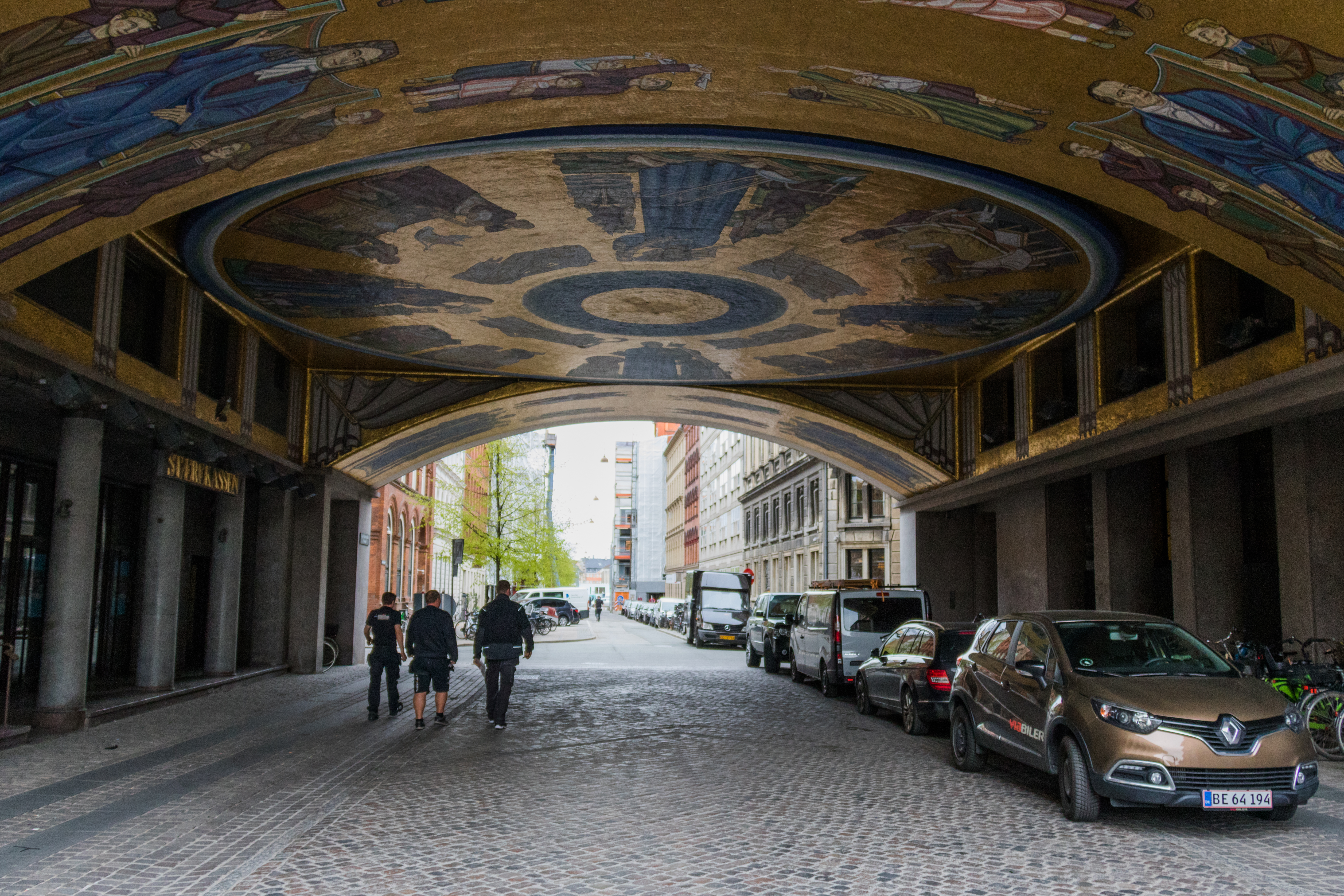 The passageway at Stærekassen in Copenhagen, Denmark